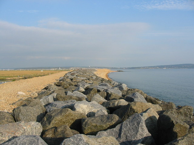 Sea defences, Milford on Sea, Hampshire. The massive shingle bank is capped with thousands of tons of giant rocks from Norway. In the distance is the Hurst Lighthouse.